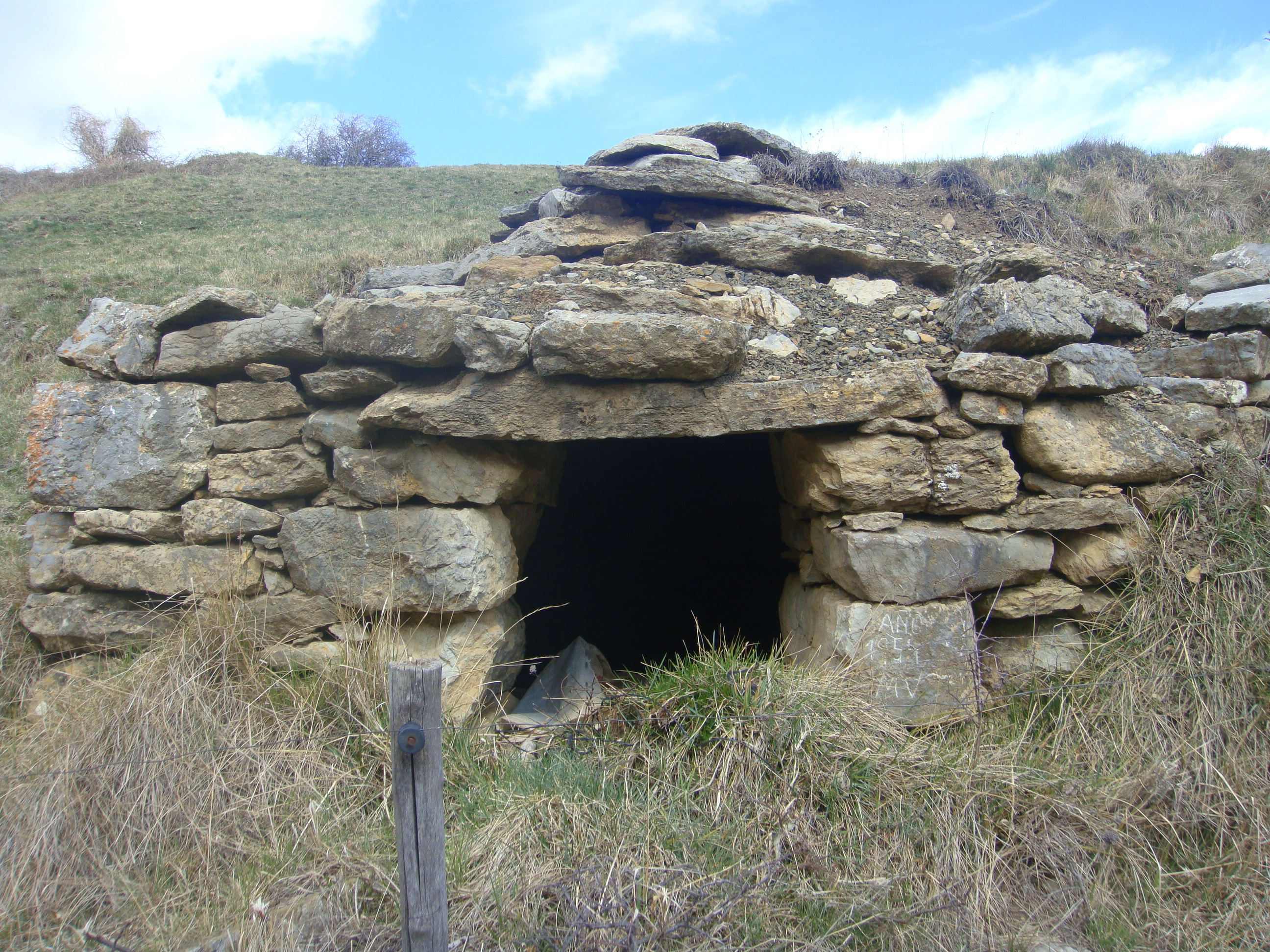 Aquesta és un exemple de les cabanyes de pastor que podem trobar a les poblacions de muntanya, en aquest cas, a la Vall de Camprodon.